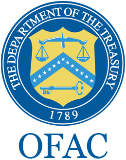 Logo of the U.S. Office of Foreign Assets Control